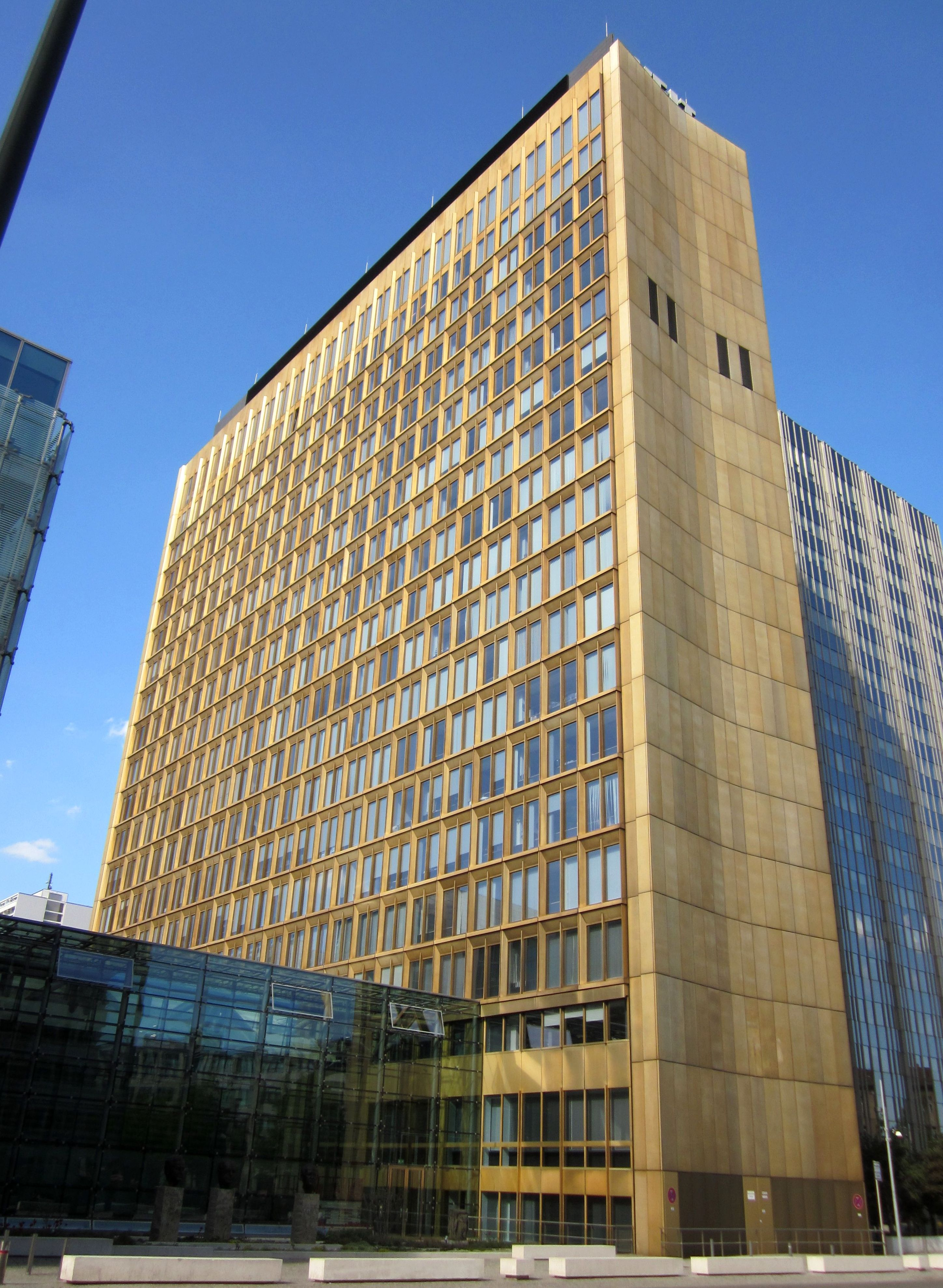 High-rise office building of the Axel Springer publishing house at Axel-Springer-Straße No. 56, here seen from Rudi-Dutschke-Straße. The building was constructed from 1959 to 1966 to designs by the architects Melchiorre Bega, Gino Franzi, Franz Heinrich Sobottka, and Gustav Müller. From 1992 to 1994 an annex was erected at right angles (on the right). The original part of the building complex has been designated as a cultural heritage monument.